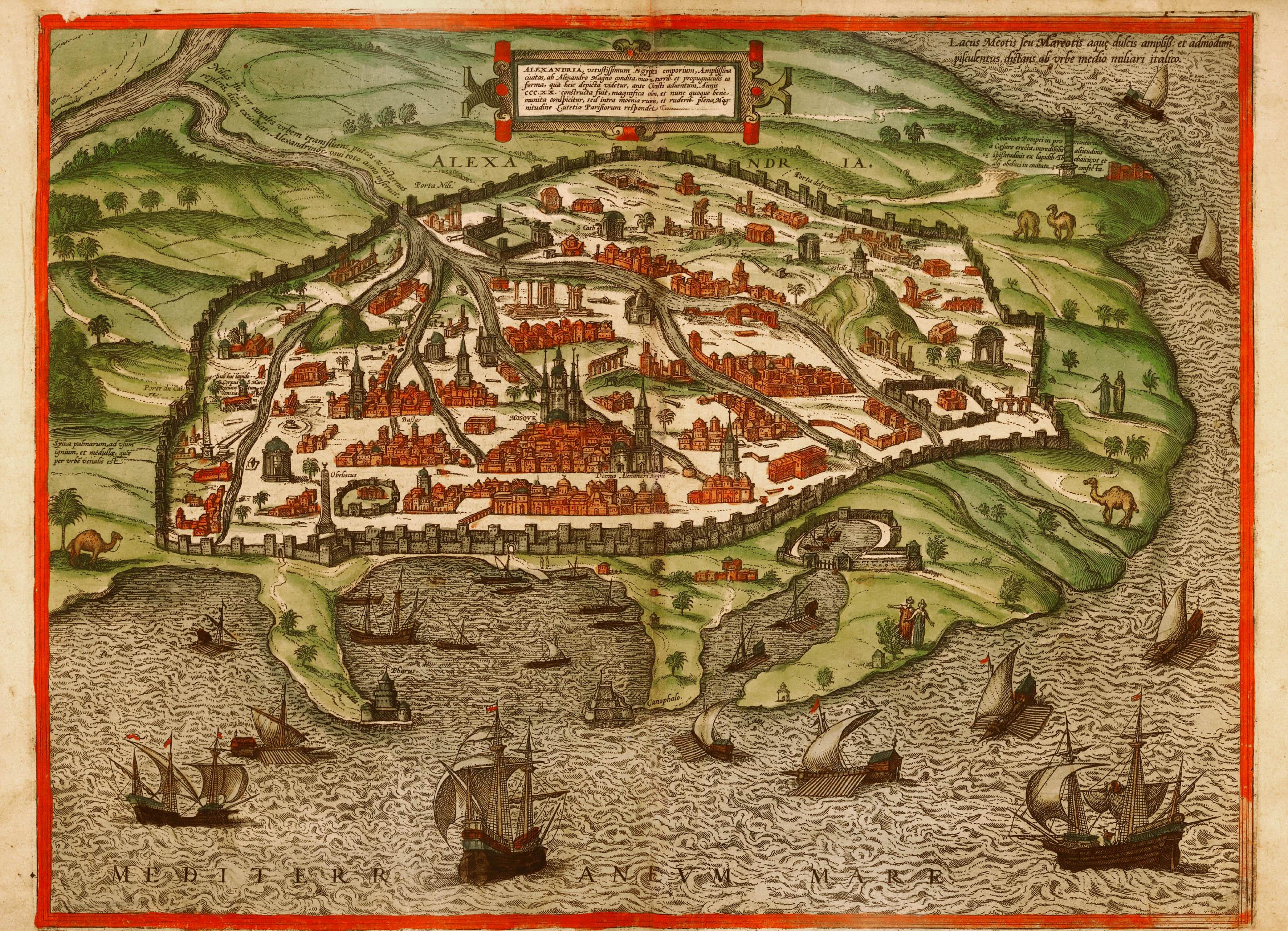 The view of Alexandria as depicted in the Braun and Hogenberg Civitates Orbis Terrarum VI of 1617. Based on an etching of Georg Hoefnagel